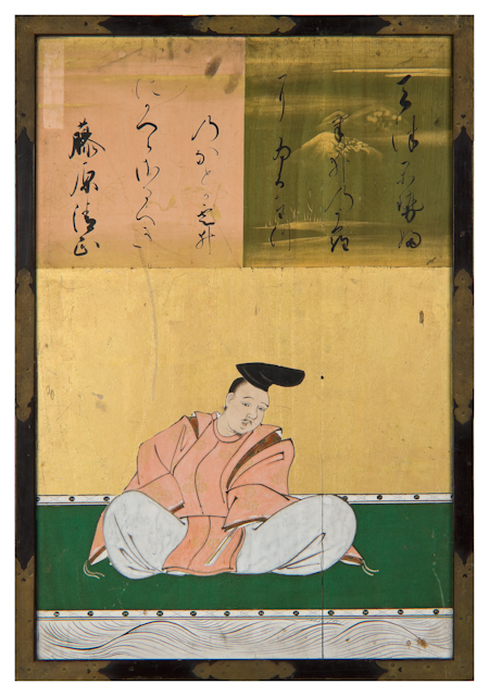 Sanjūrokkasen-gaku (Thirty-six Poetry Immortals framed picture) #19: Fujiwara no Kiyotada